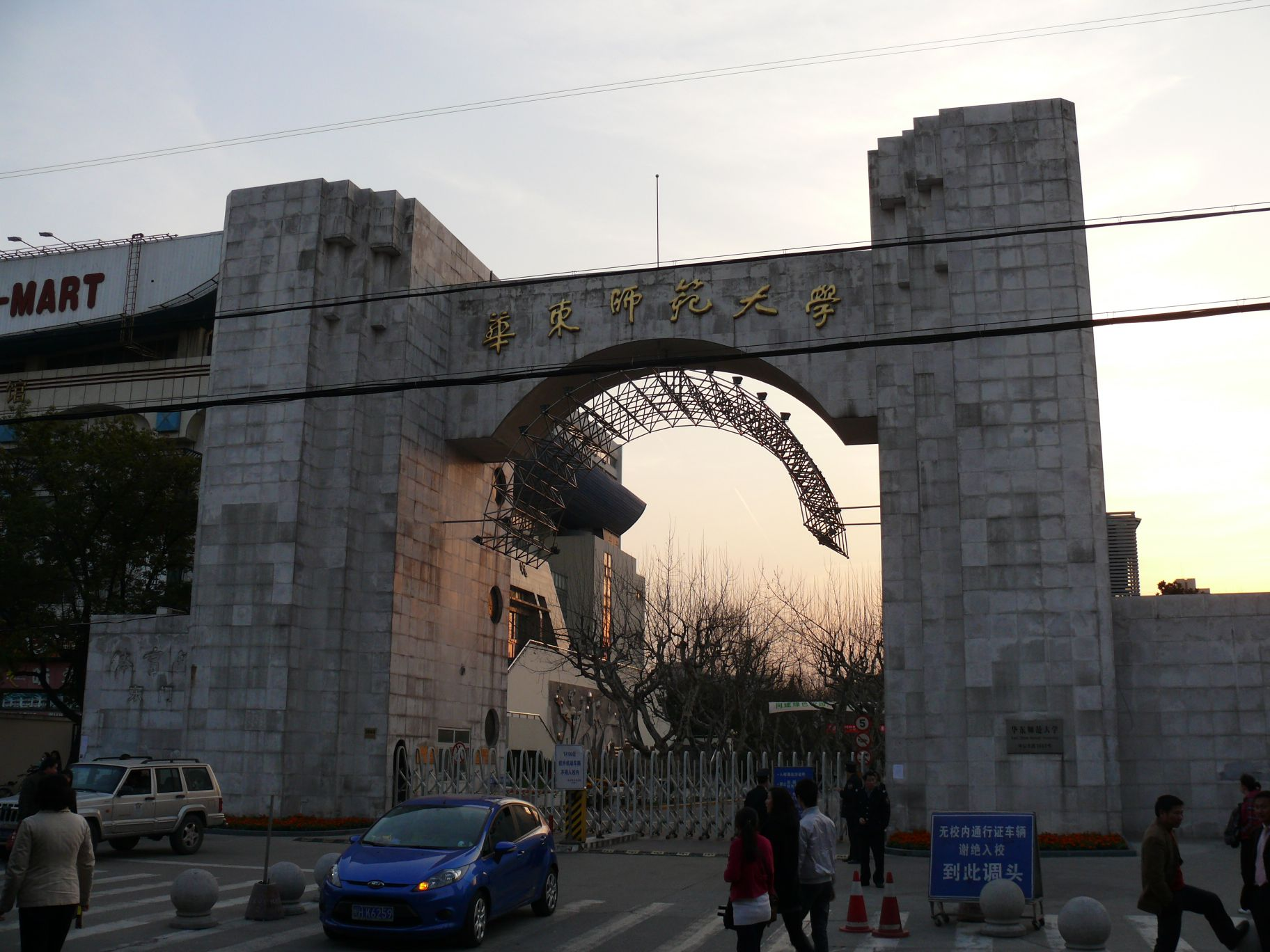 Putuo campus of East China Normal University (Shanghai, China)